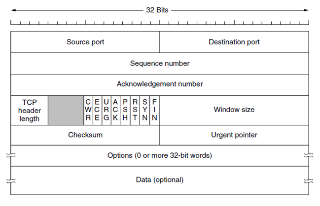 TCP packet layout with bit scale.